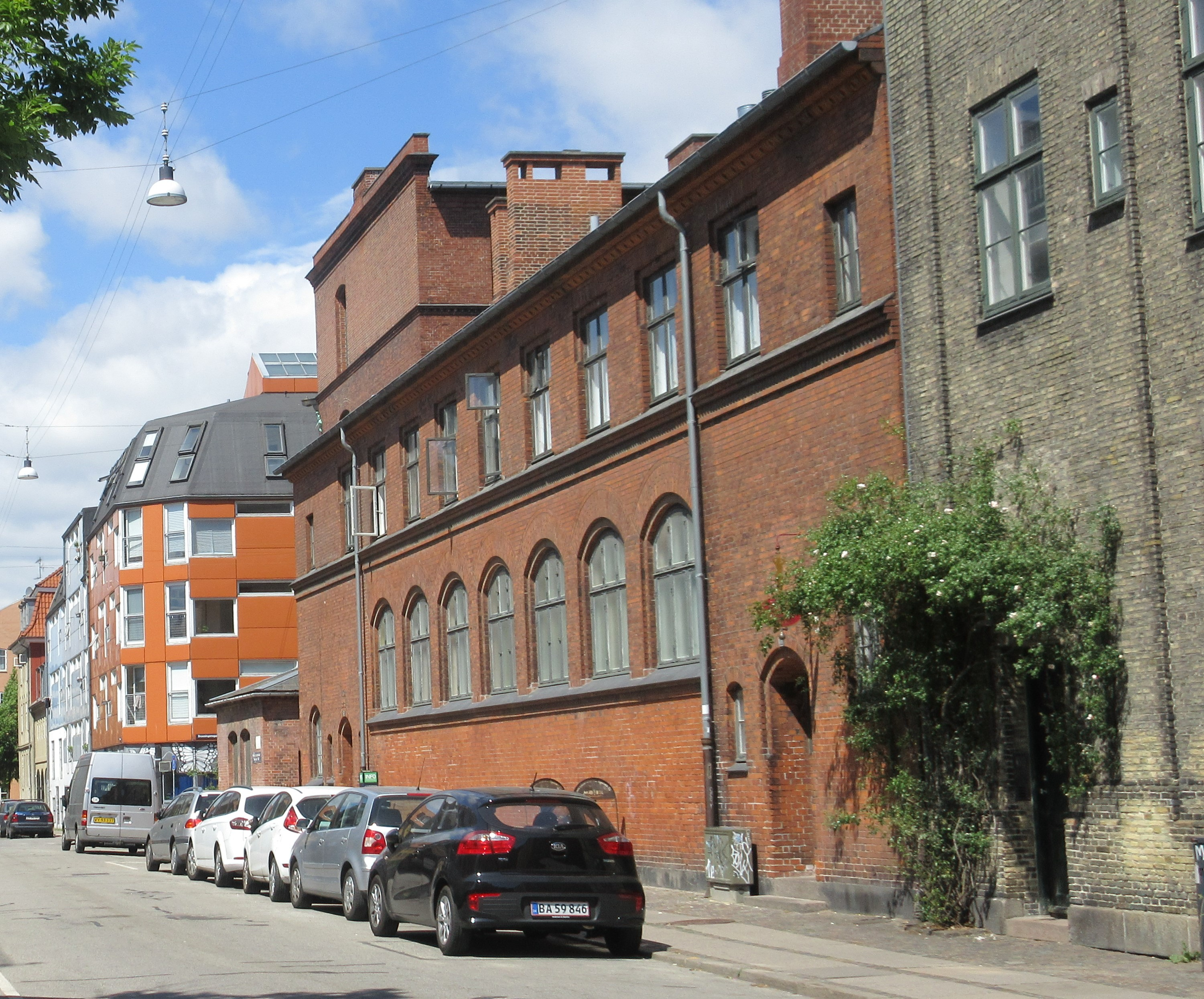 Sofiebadet in Christianshavn, Copenhagen, Denmark